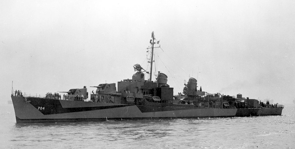 The U.S. Navy destroyer USS Borie (DD-704), circa in late 1944.